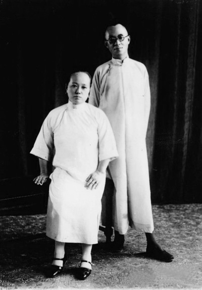 Zhu Wenshao and his wife Zhang Jiayi